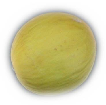 Melon (self produced)